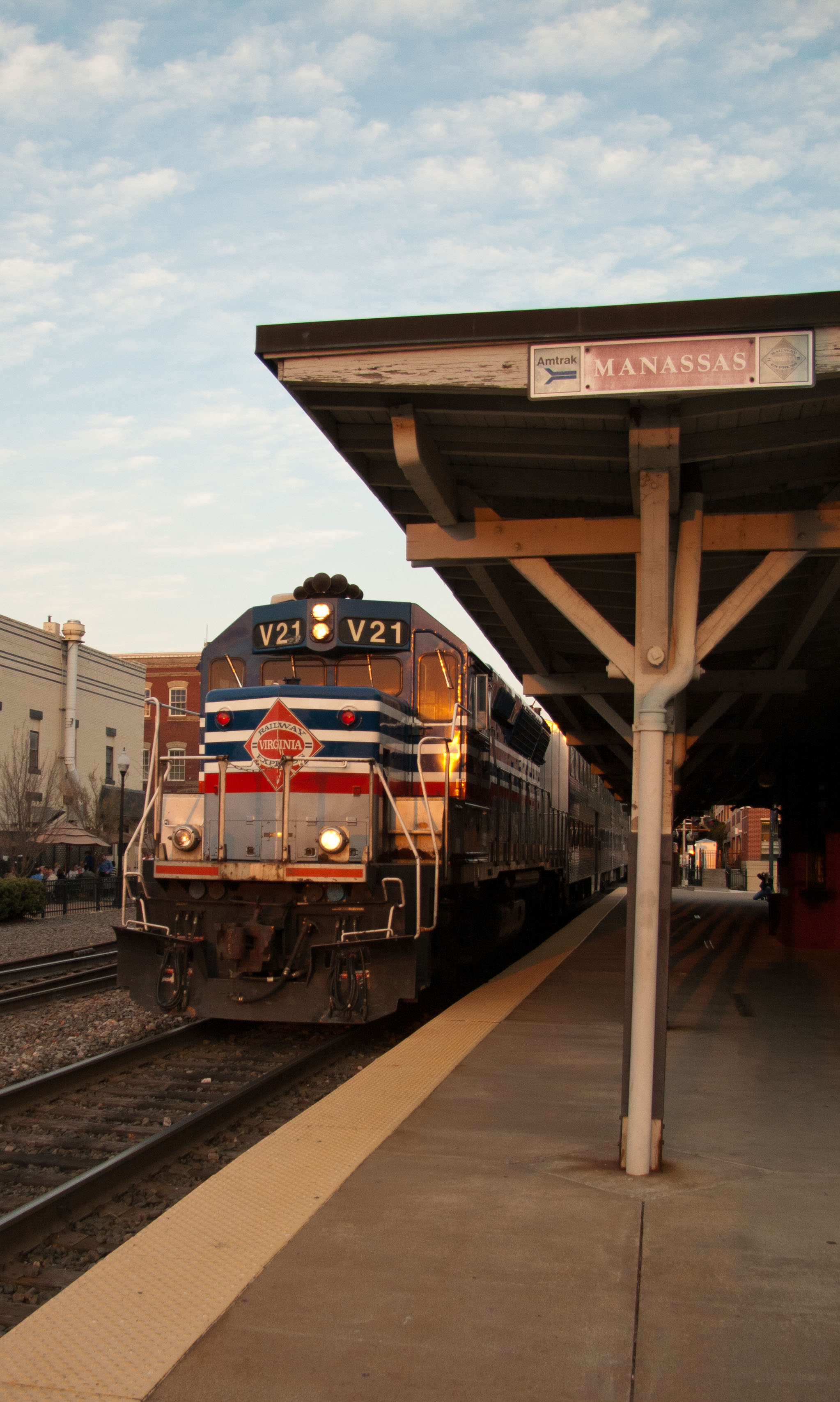 A VRE GP40 leading a commuter train pulls into the Manassas, VA station. It looks like the station sign could use a little touchup.